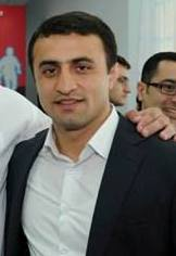 Farid Mansurov.